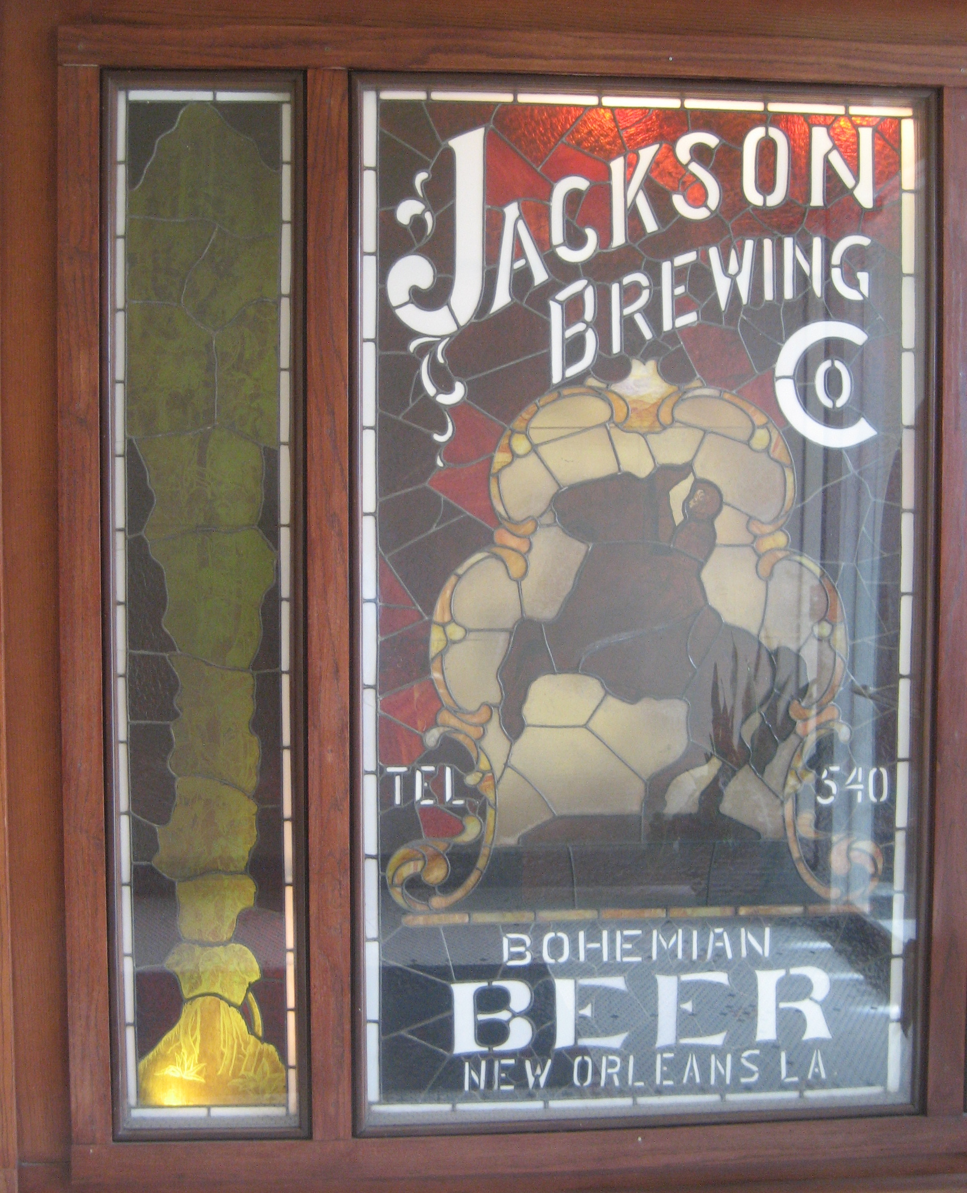 Old stained glass window of the Jackson Brewery, French Quarter, New Orleans. Dates from c. 1891. Note telephone number 540.